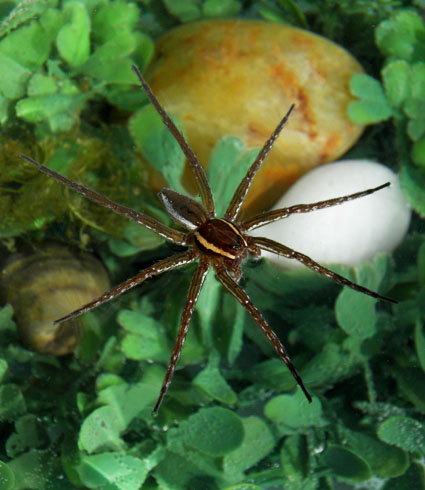 This photo was taken by the one who uploaded it, a Wikipedia editor. It was taken using the Olympus sp-800uz digital camera. It was touched up by using Adobe Photoshop CS2. It was taken in June 6 2011. The specimen was unharmed and was found in Ontario Canada.